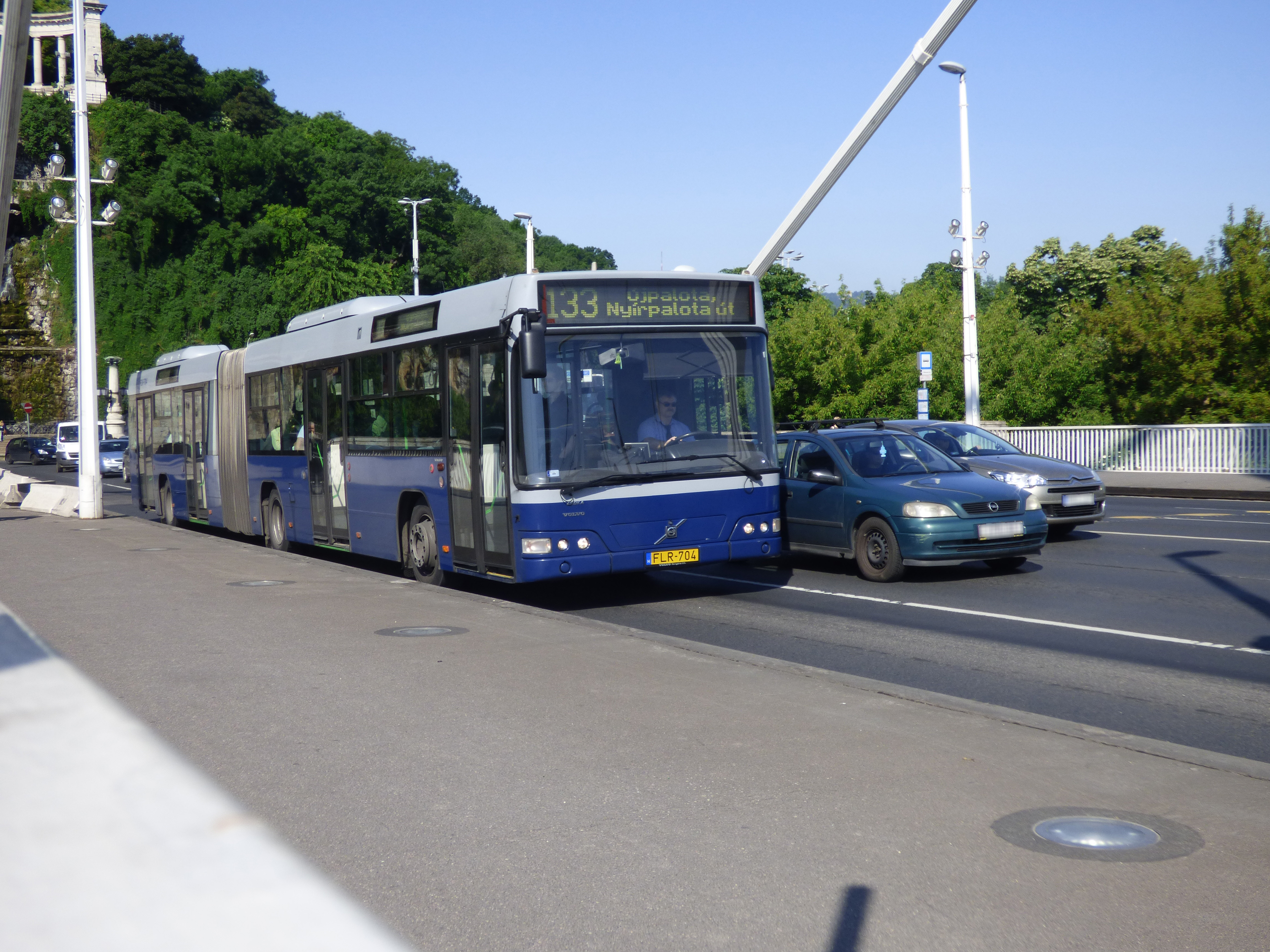 Volvo 7700A (reg. FLR-704), bus no. 133, Budapest